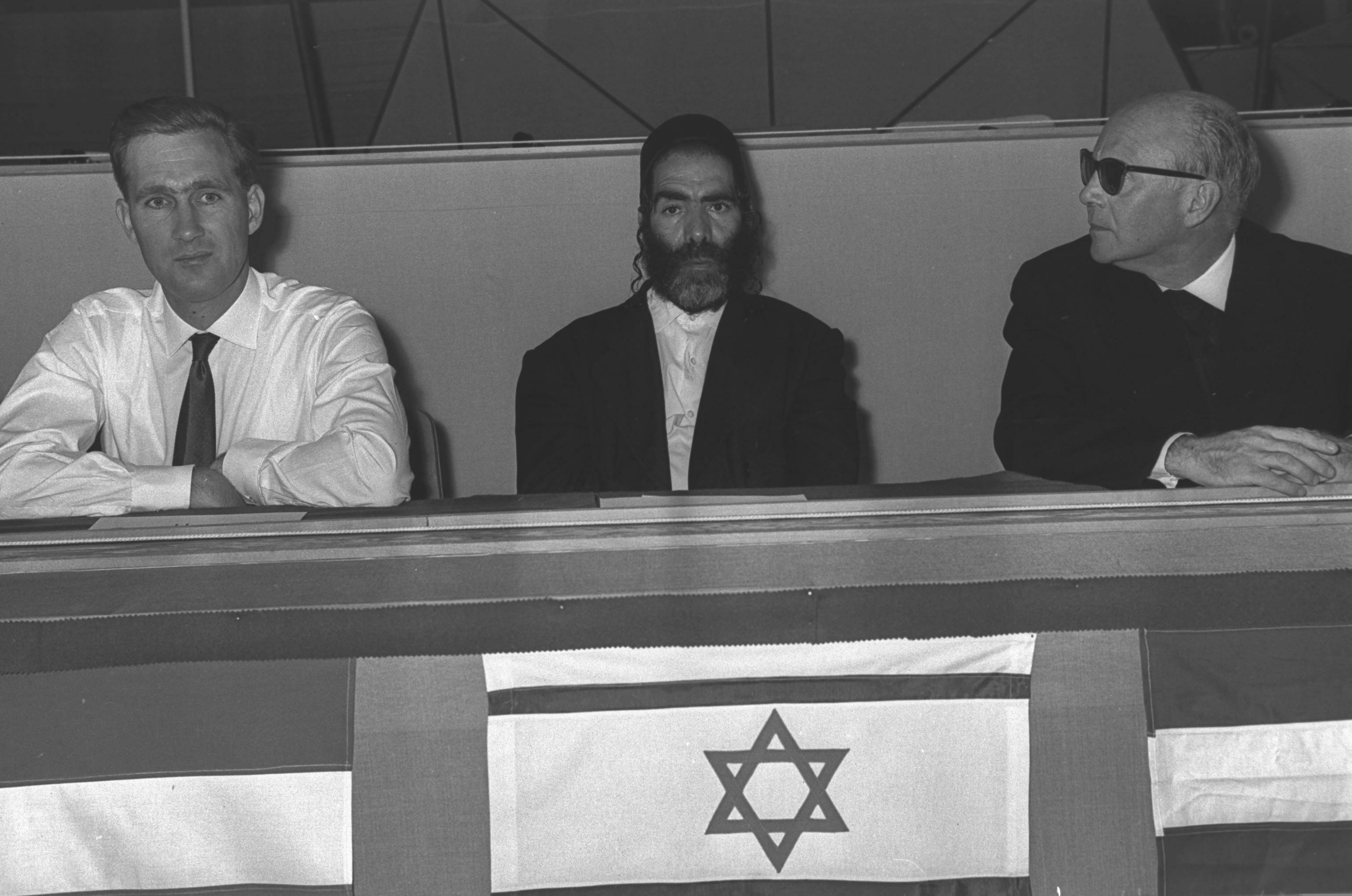 CONTESTANTS OF THE SECOND INTERNATIONAL BIBLE QUIZ. L-R, JOHN D. MEPPELINK HOLLAND, RABBI YIHYE ALSHEIKH ISRAEL, PROF. GERHARD WOLF AUSTRIA